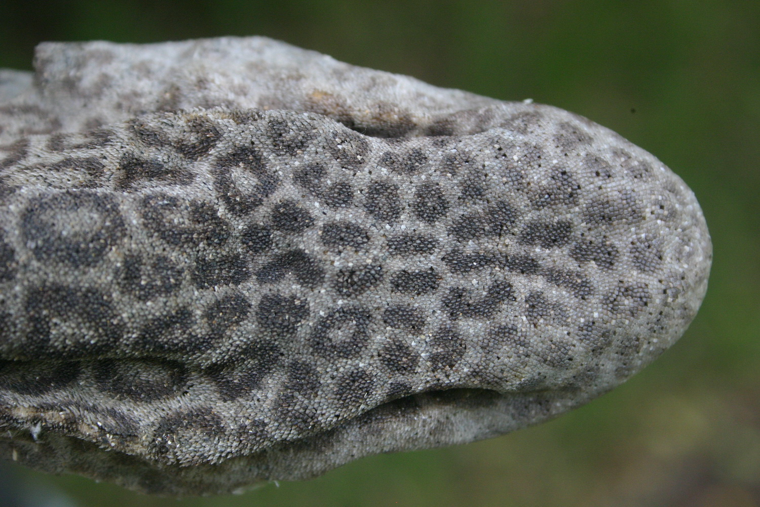 Poroderma pantherinum - Leopard catshark - wind-dried - Nature's Valley, South Africa